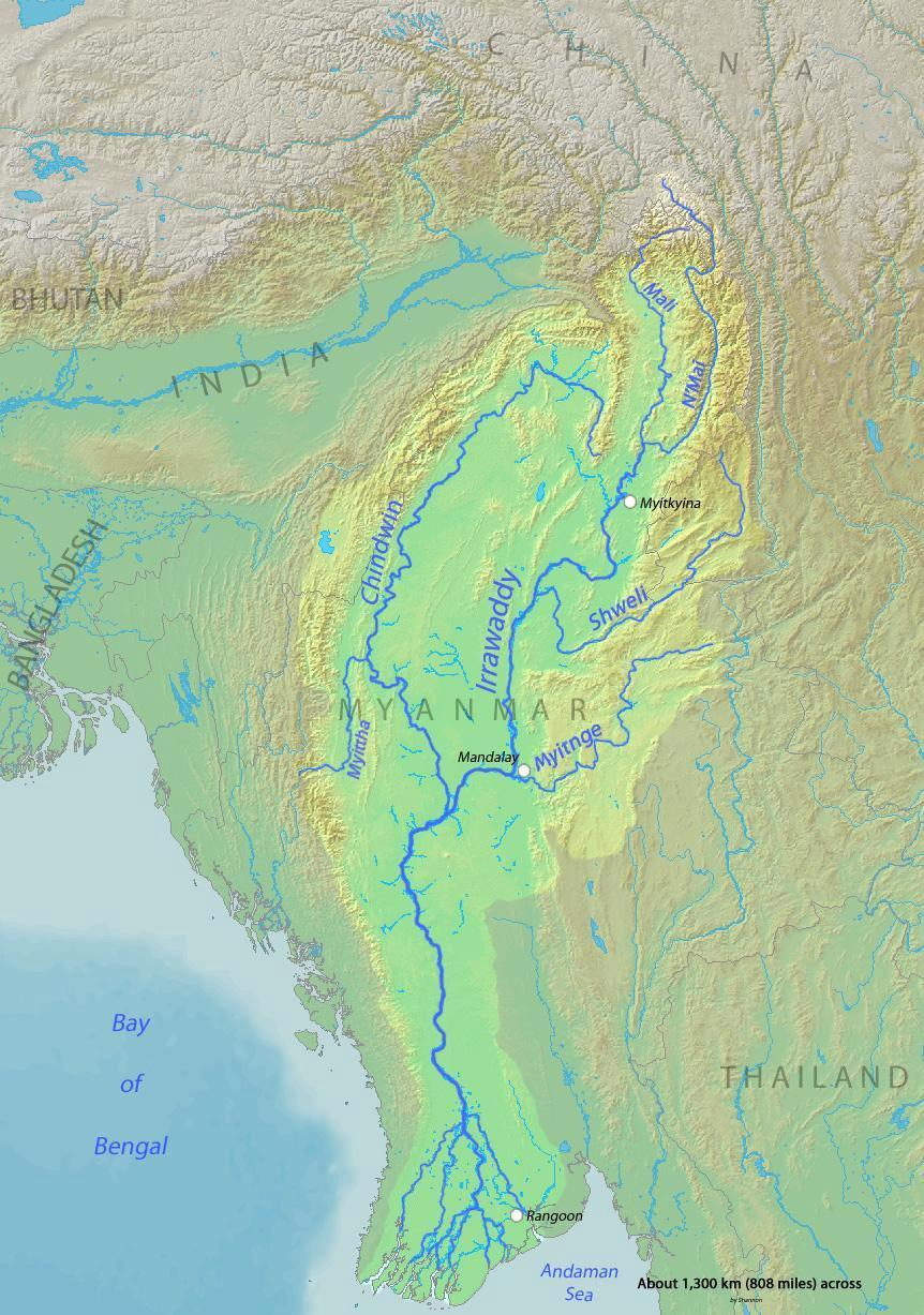 Map of the Irrawaddy River, which drains parts of Myanmar (Burma), Thailand and India into the Andaman Sea